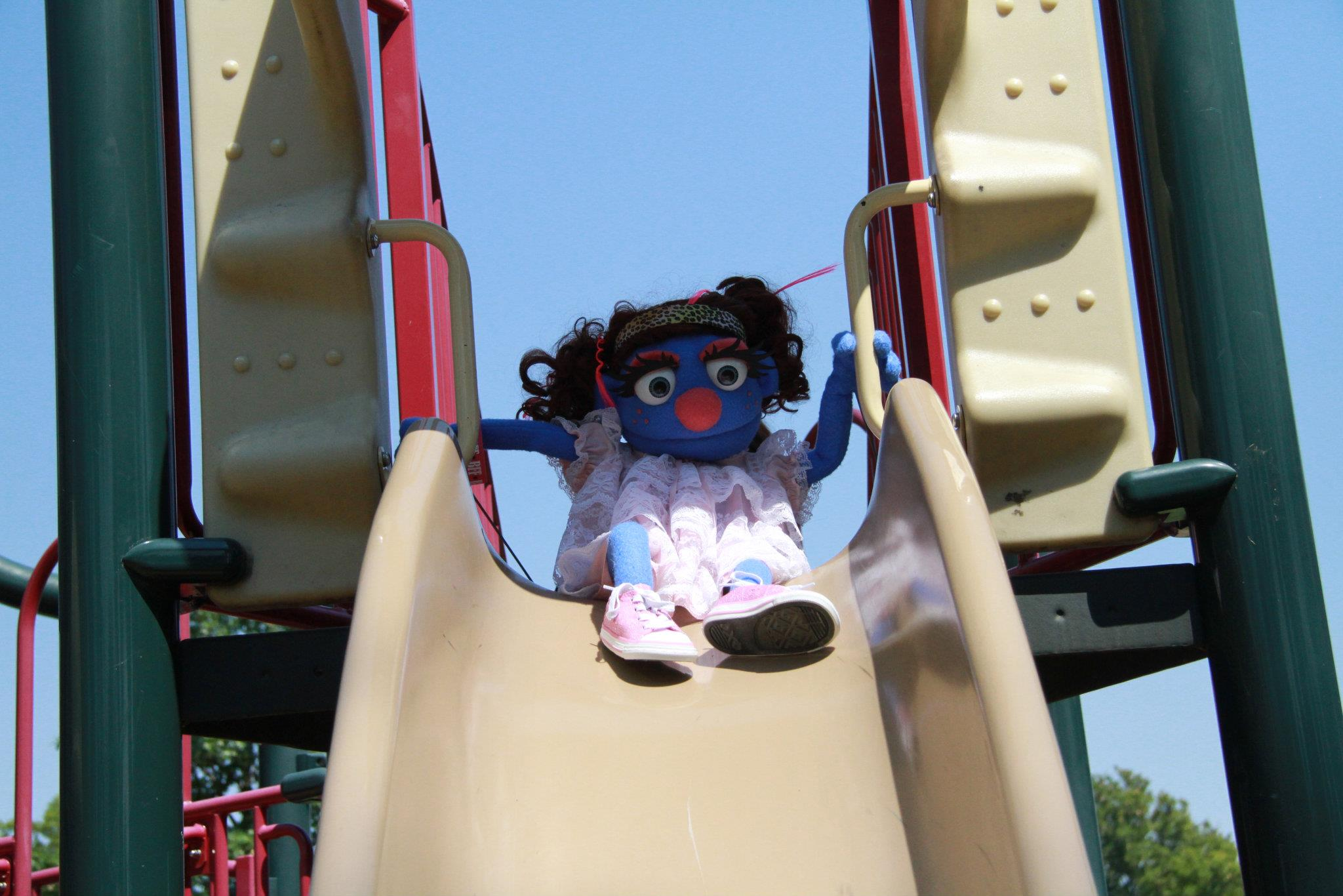 Puppet character Bleeckie reacts with apprehension to the height of the slide. Bleeckie is a character performed by Leslie Madeline Fleming, best known for her video routines, posted on video sharing website YouTube. By bringing Bleeckie into a setting that actual children would generally appear in, and not appearing within the area seen by the viewer, Fleming enhances the illusion of life in a way greater than one would expect in a traditional puppet theatre.